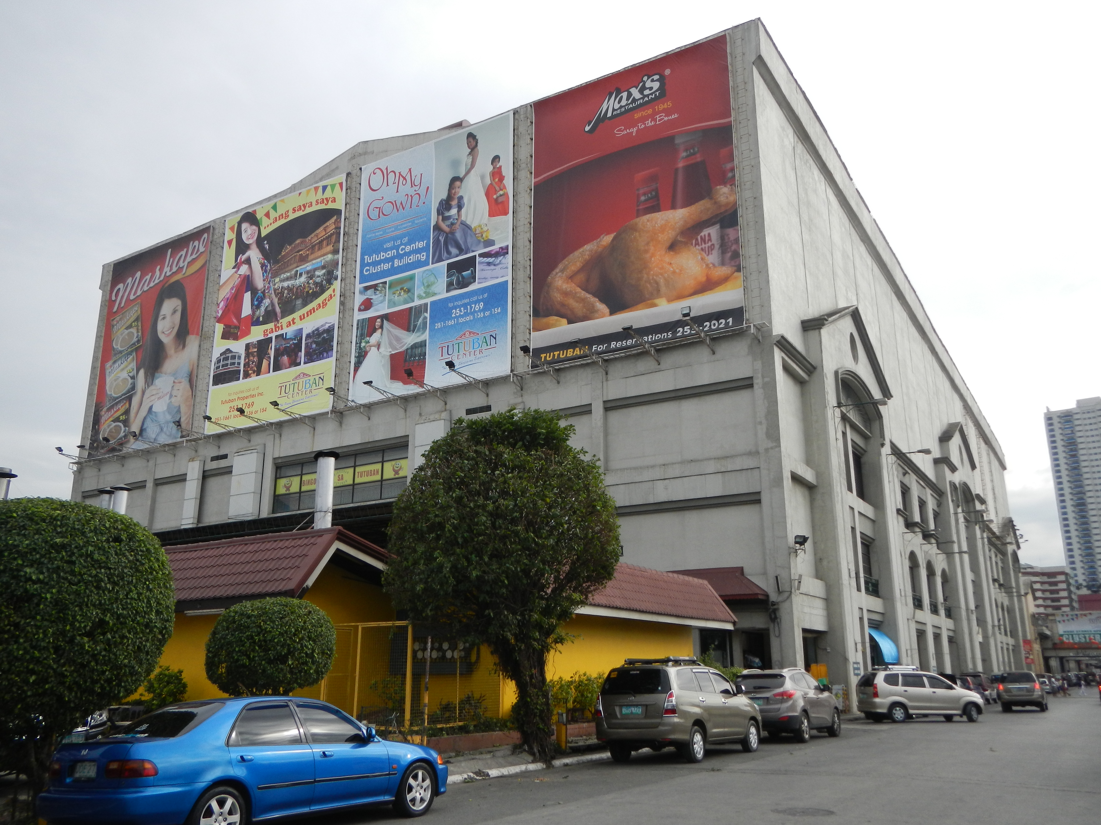 Upload Wizard photos of - a) Tutuban Centermall II, List of shopping malls in Metro Manila [1] b) Tutuban railway station[2] PNR Executive Building on Mayhaligue Street, Tondo, Manila[3], which today serves as the PNR's Tutuban station Philippine National Railways[4] and its Chapel.